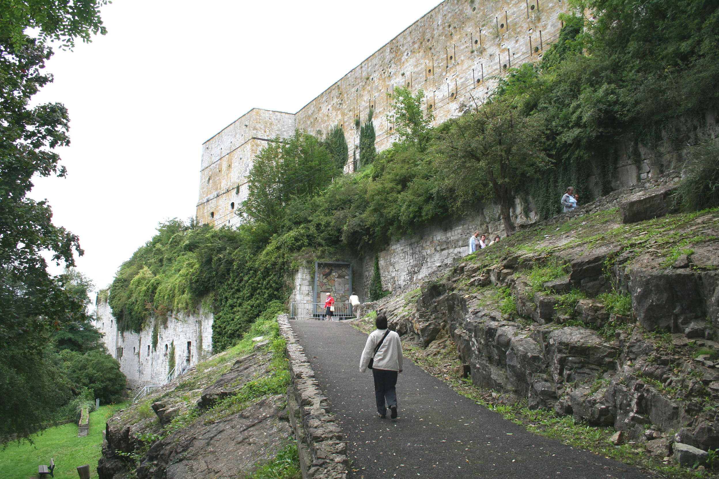 Huy (Belgium), the citadel.